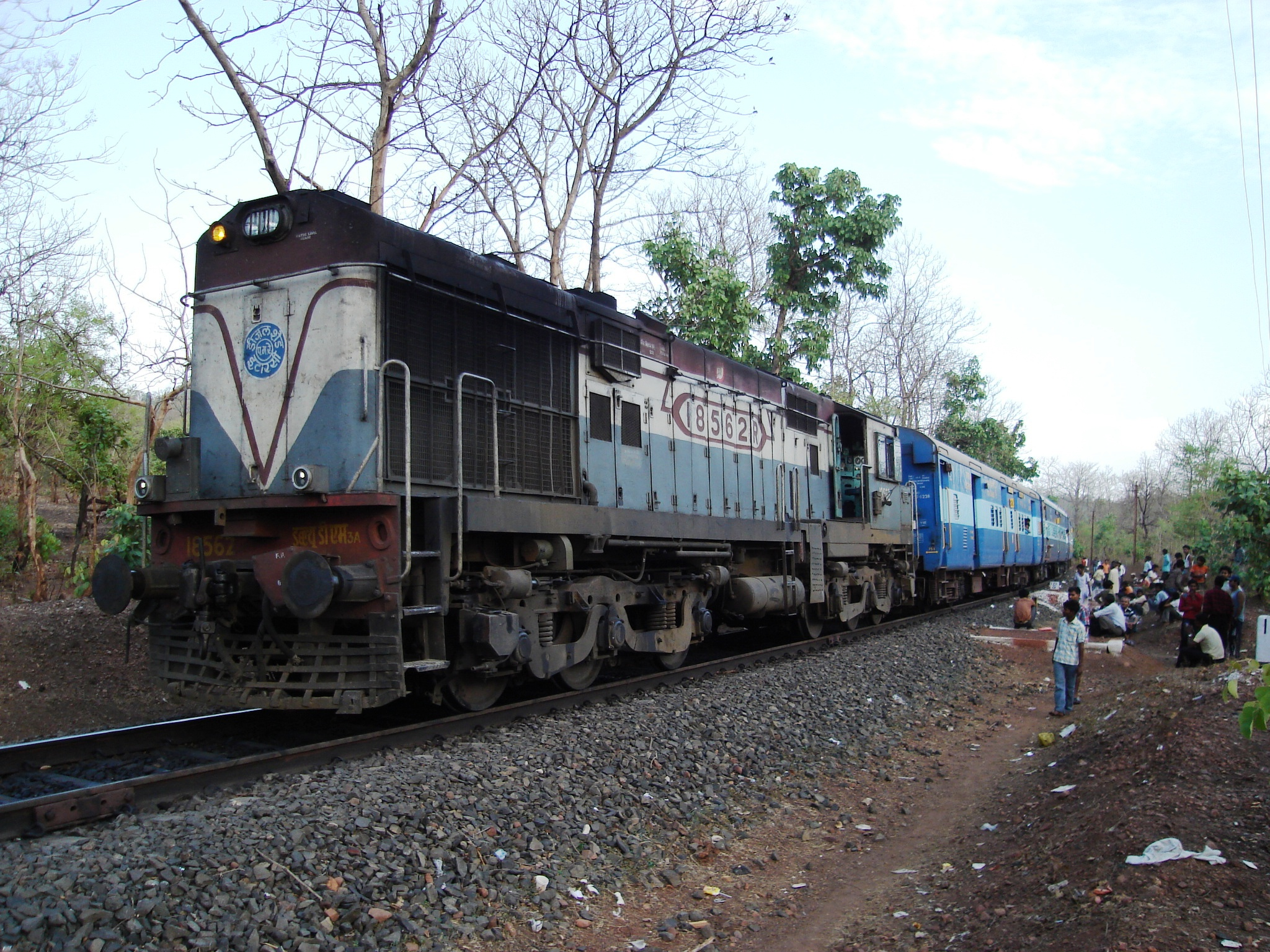 I shot this picture during a train journey from Bangalore to Allahabad. Pictured is a Diesel powered locomotive of Indian Railways attached to a row of coaches. I hereby release this image to Public Domain. Use it freely.